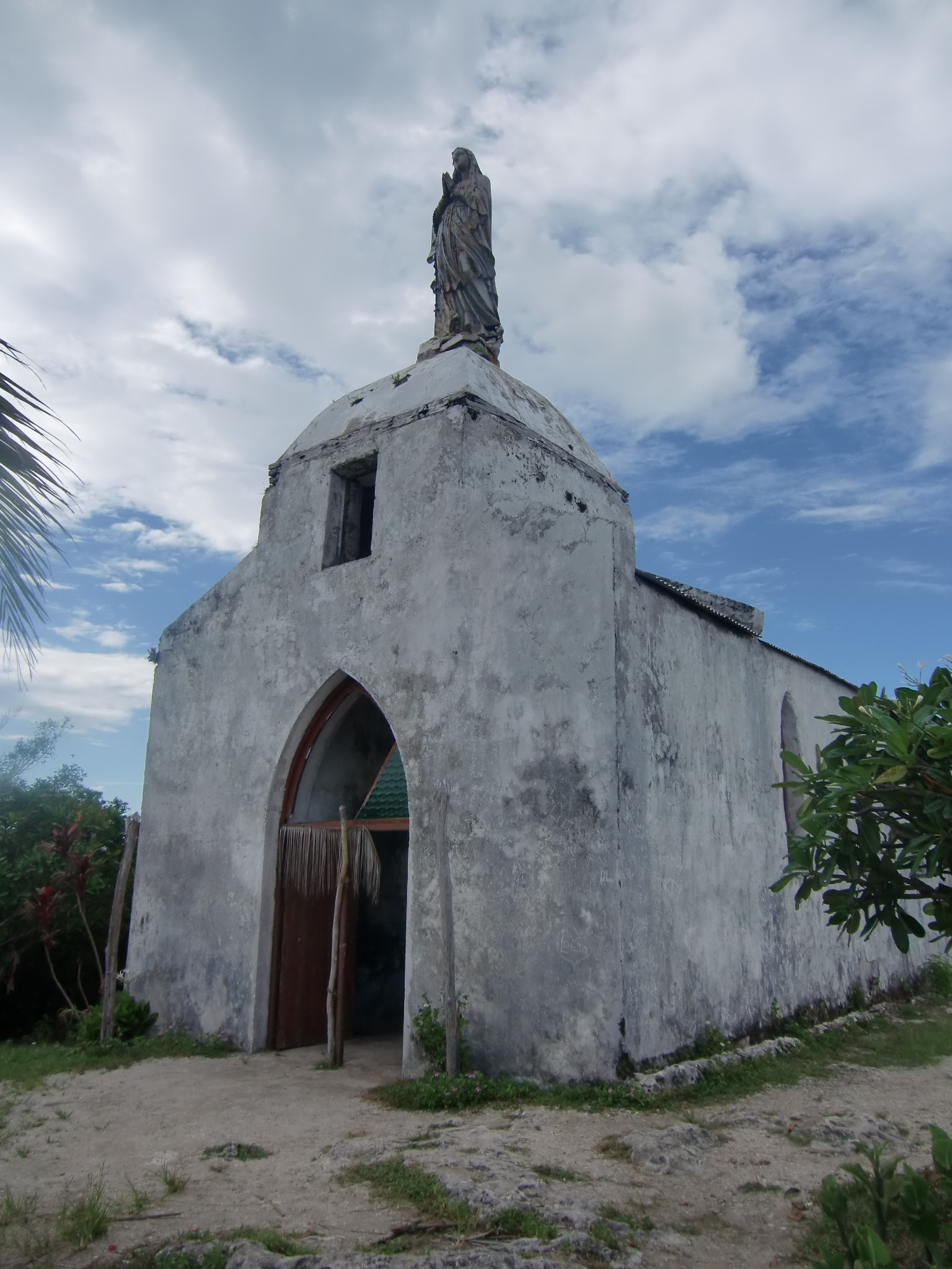 The Chapel of Notre-Dame de Lourdes at Easo, Lifou (exterior)